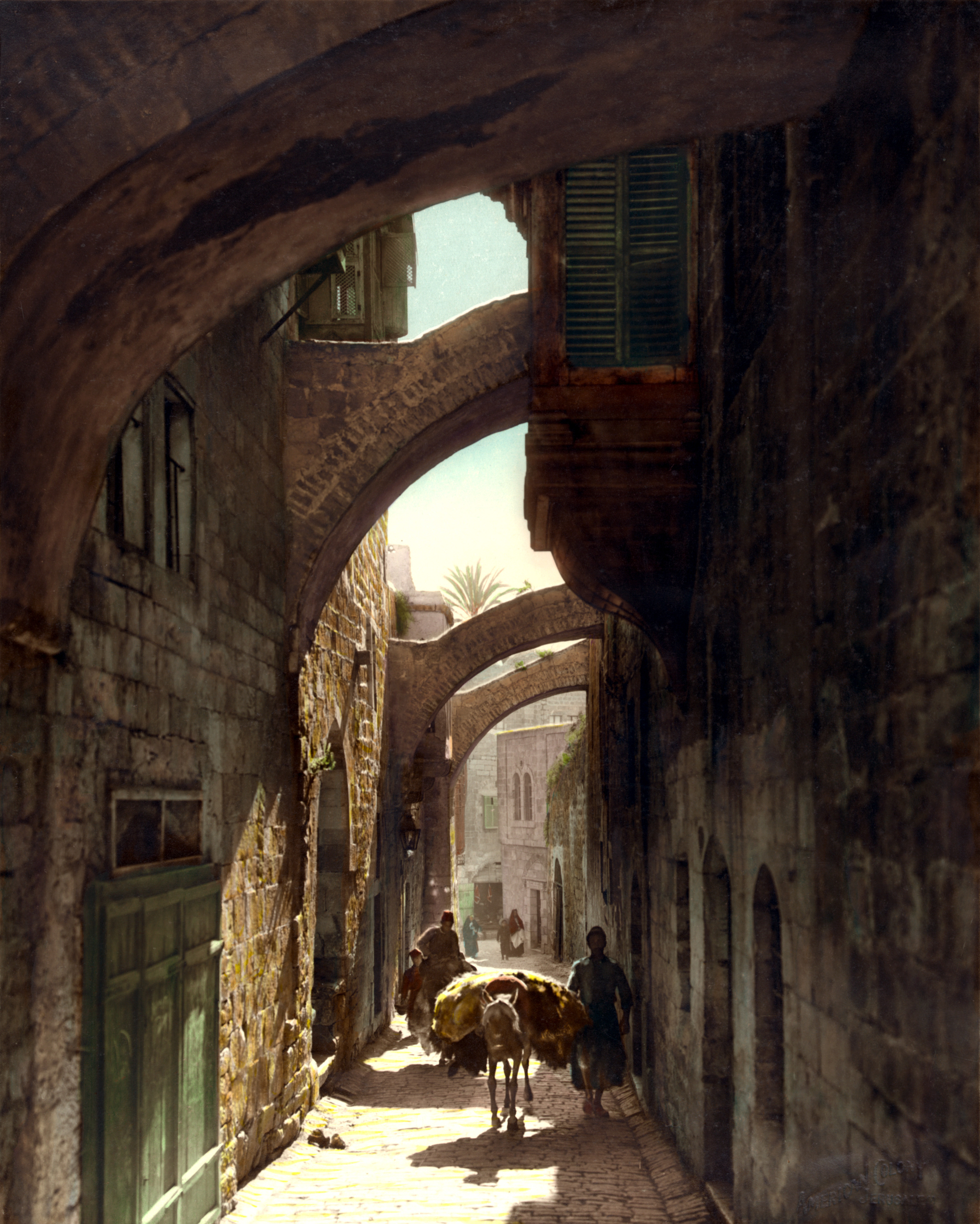 Via Dolorosa, Jerusalem. Hand-colored photographs